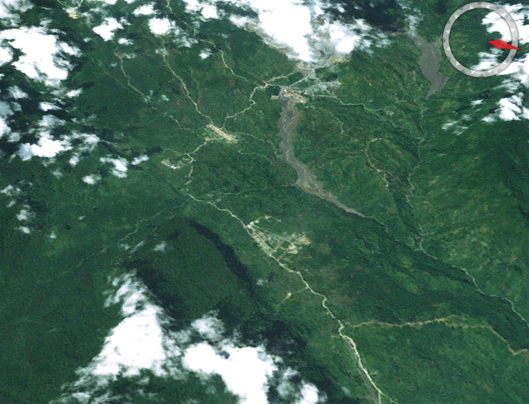 NASA World Wind image of Porgera Mine and town